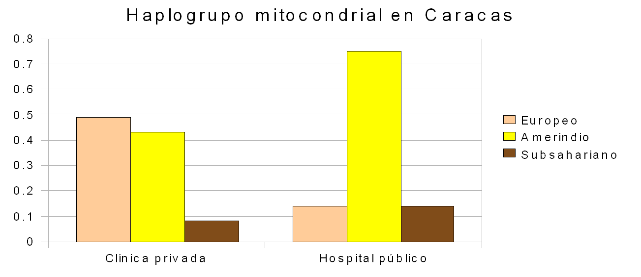 Haplogroup origin for mitochondrial DNA for Caracas. Study by IVIC, 2007